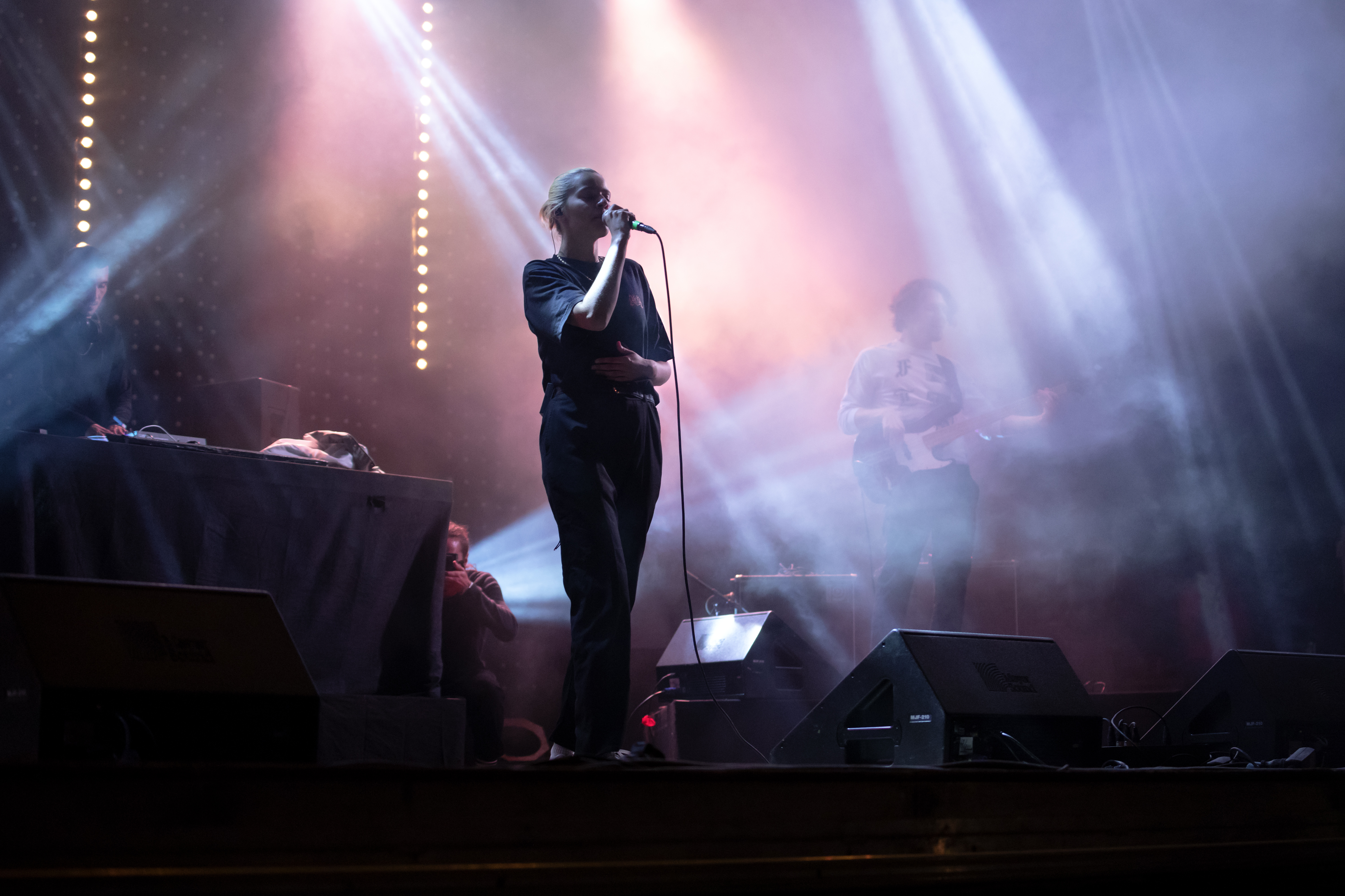 Mavi Phoenix, concert at Donauinselfest 2018 (Vienna, Austria).